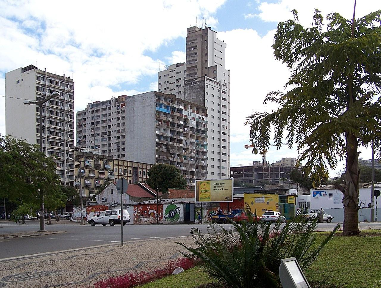 Behind Maputo's city hall. In front Avenida Ho Chi Minh with the Mercado do Povo (People's market), in the back Avenida Karl Marx with the CFM building. Maputo, Mozambique